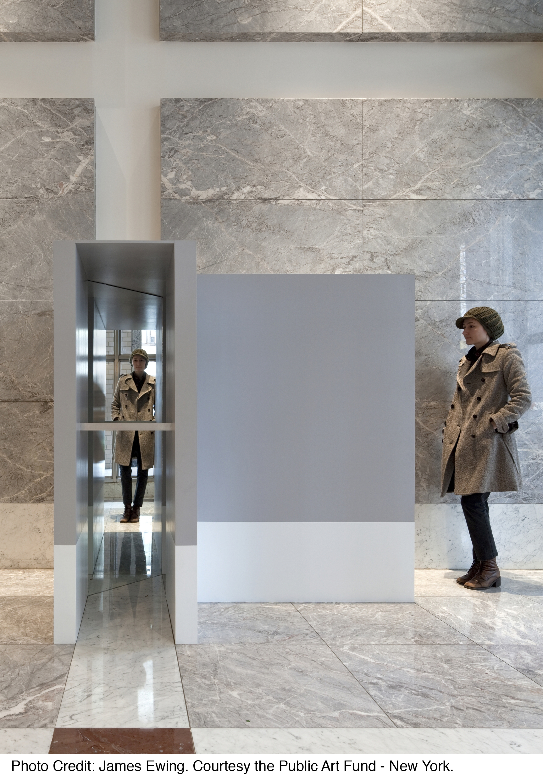 Natasha Johns-Messenger, ThisSideIn, Metro Technology Centre Brooklyn, Commissioned by Public Art Fund, New York, 2009-2010